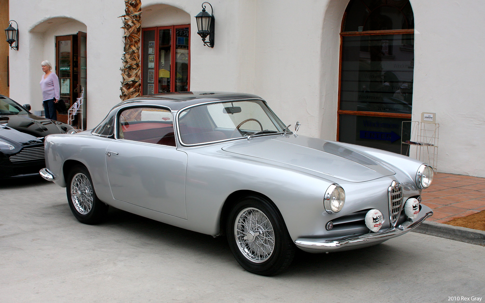 Third Annual Desert Classic Concours d'Elegance, Feb 28 2010